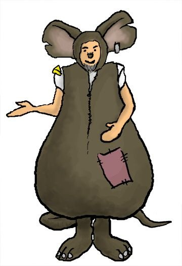 Beakman's World character Lester the Rat